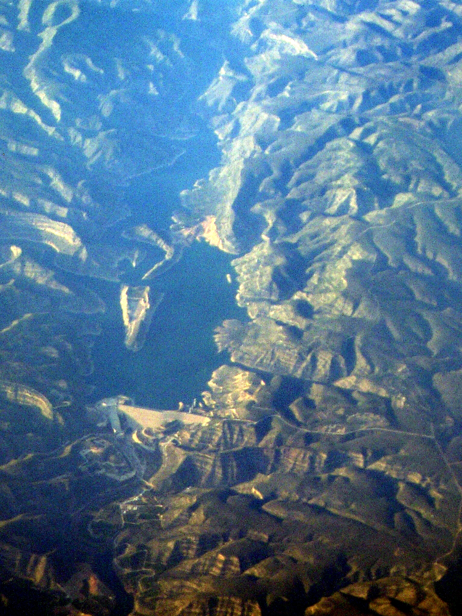 Tous dam (Aerial photography)